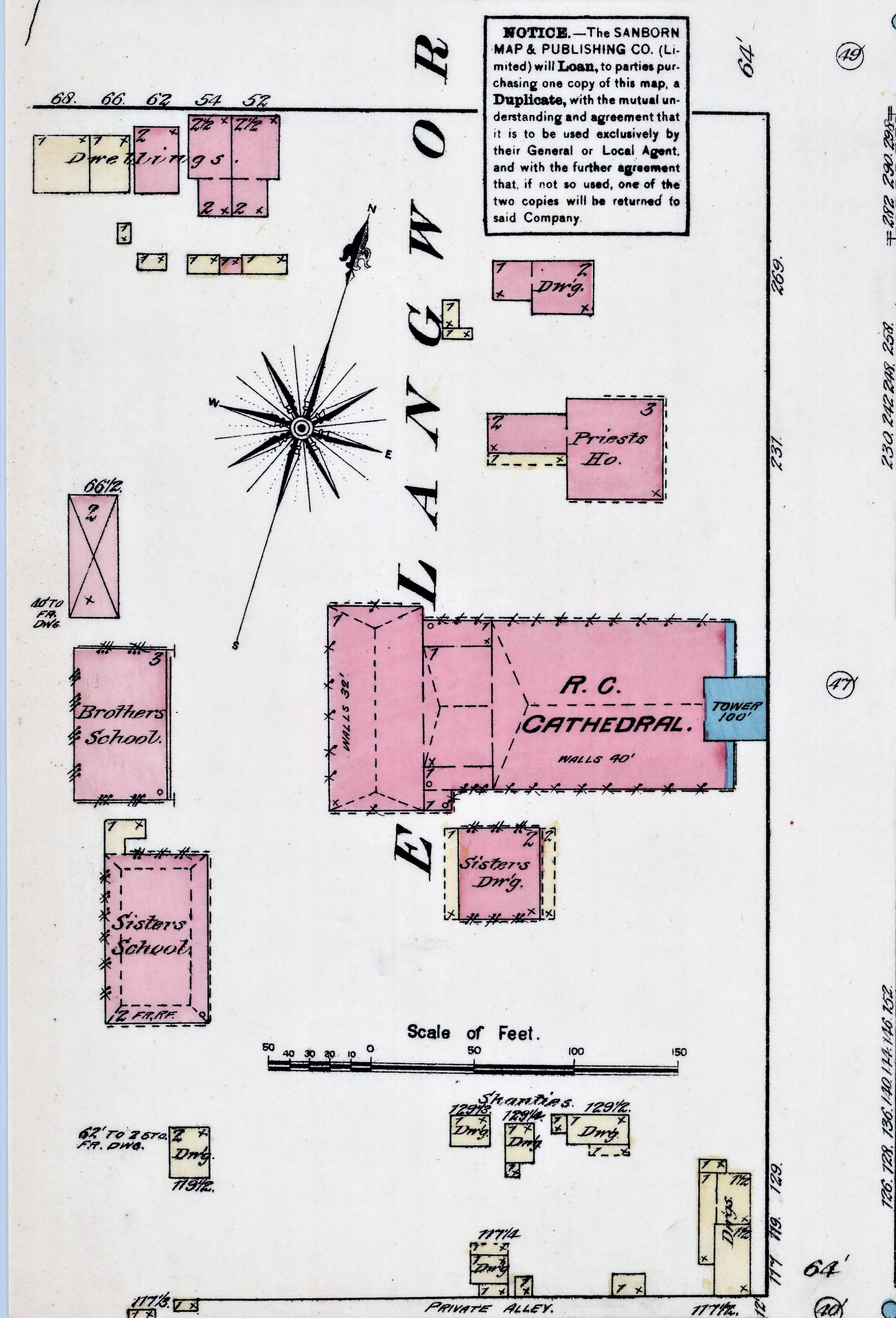 An 1884 Sanborn Fire Insurance Map cropped to show the property of St. Raphael's Cathedral in Dubuque, Iowa, United States. The cathedral is in the center (pink, tower in blue). The rectory is located immediately to the north of the cathedral and another dwelling, no longer extant, is shown above it. The convent, no longer extant, is below the cathedral on the location of the future parish school. The boy's school, no longer extant, and the girl's school building, which became the convent, are located behind the cathedral. Emmet Street, which does not exist at this date, was built in front of the girl's school building (future convent). The dwellings at the bottom of the block are listed as shanties and could possibly be some of the residences along Emmet Street now. There continue to be dwellings at the top left corner of the property today.